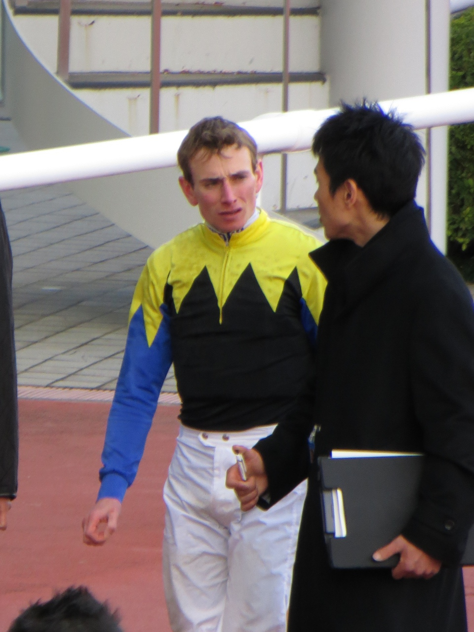 Ryan Moore (Jockey from England) in Hanshin Racecourse.